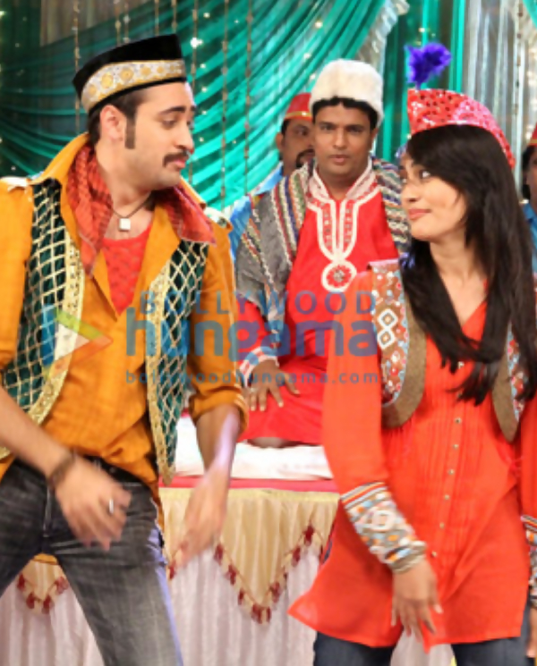 Imraan Khan promotes Once Upon a time in Mumbai Dobara with Surbhi Jyoti on the sets of Qubool Hai.